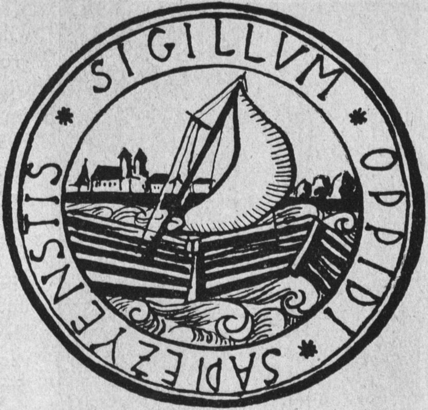 Coat of Arms of Sapiežyn